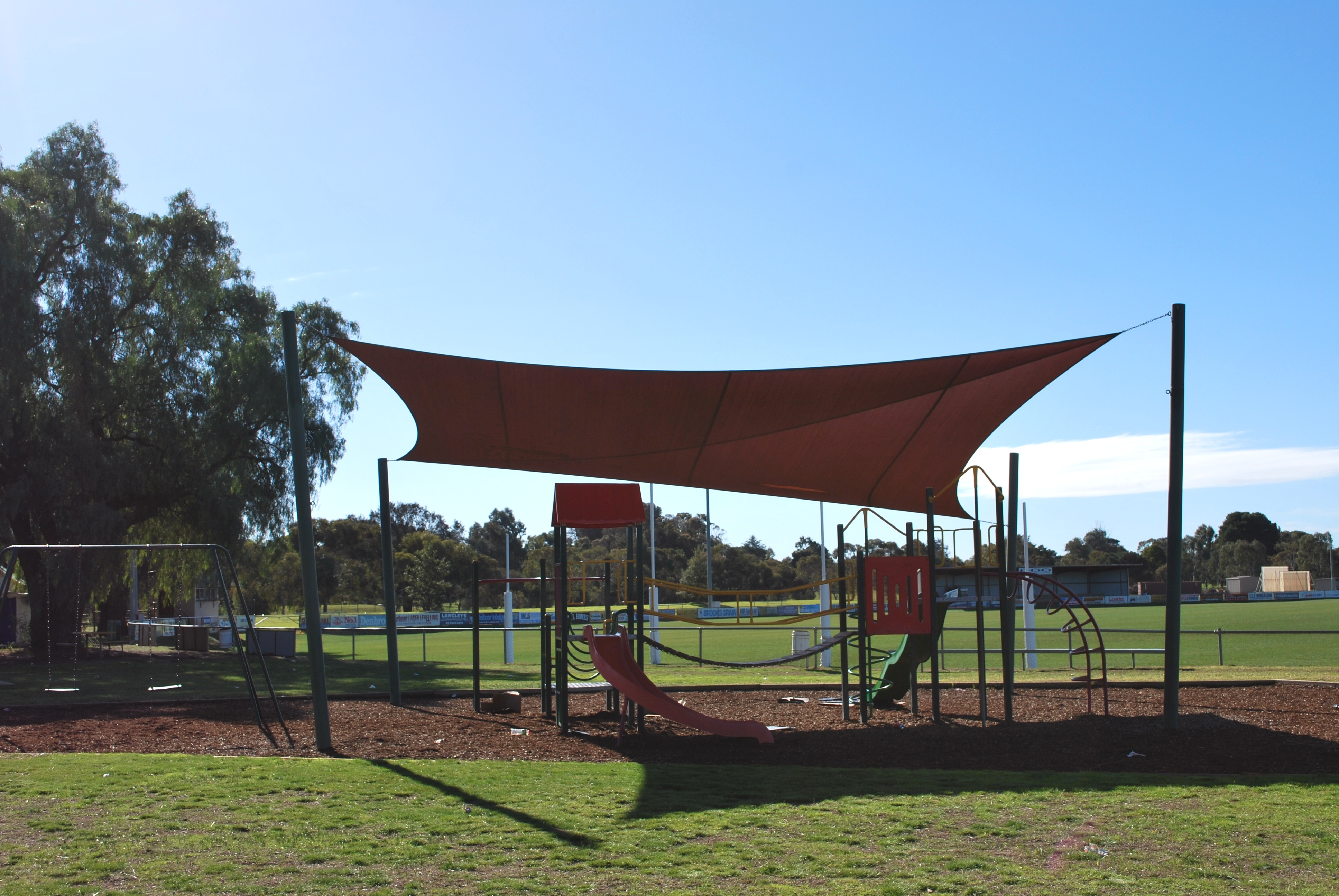 Australian rules football ground and playground at Barooga, New South Wales